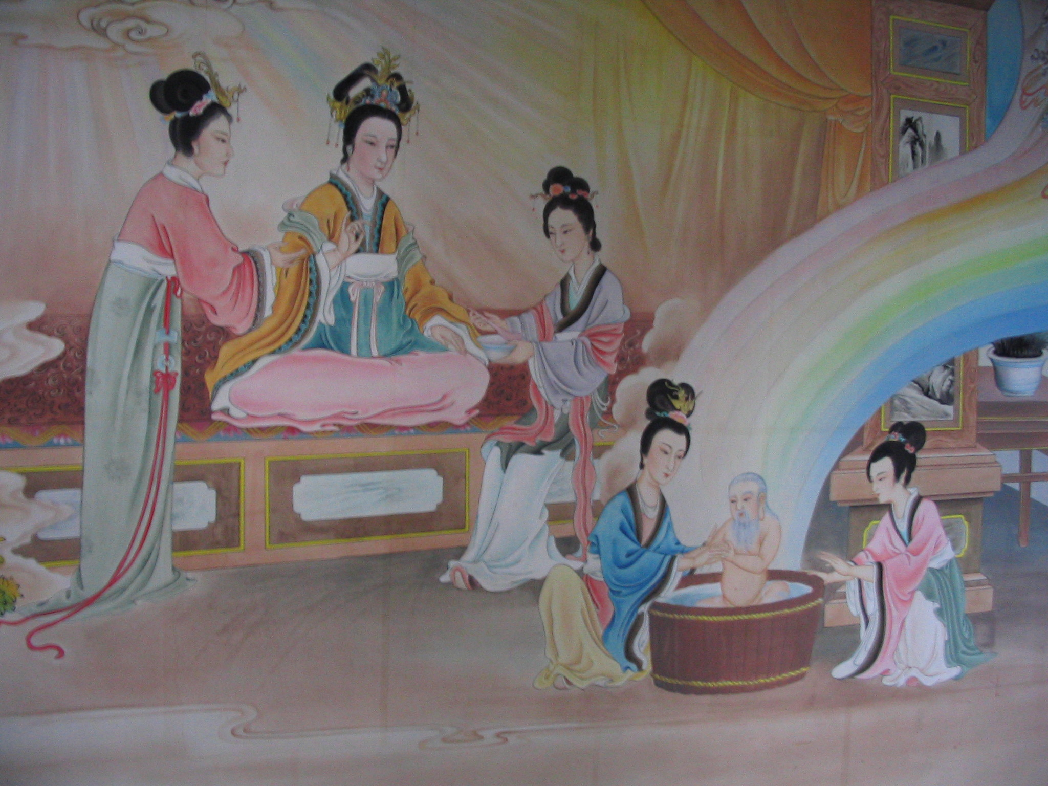 Detail of a wall painting depicting Laozi as a baby. Laozi is considered to be the founder and that who revealed Daoism (Taoism). Gray Goat Temple (Qingyanggong), Chengdu, Sichuan, China.